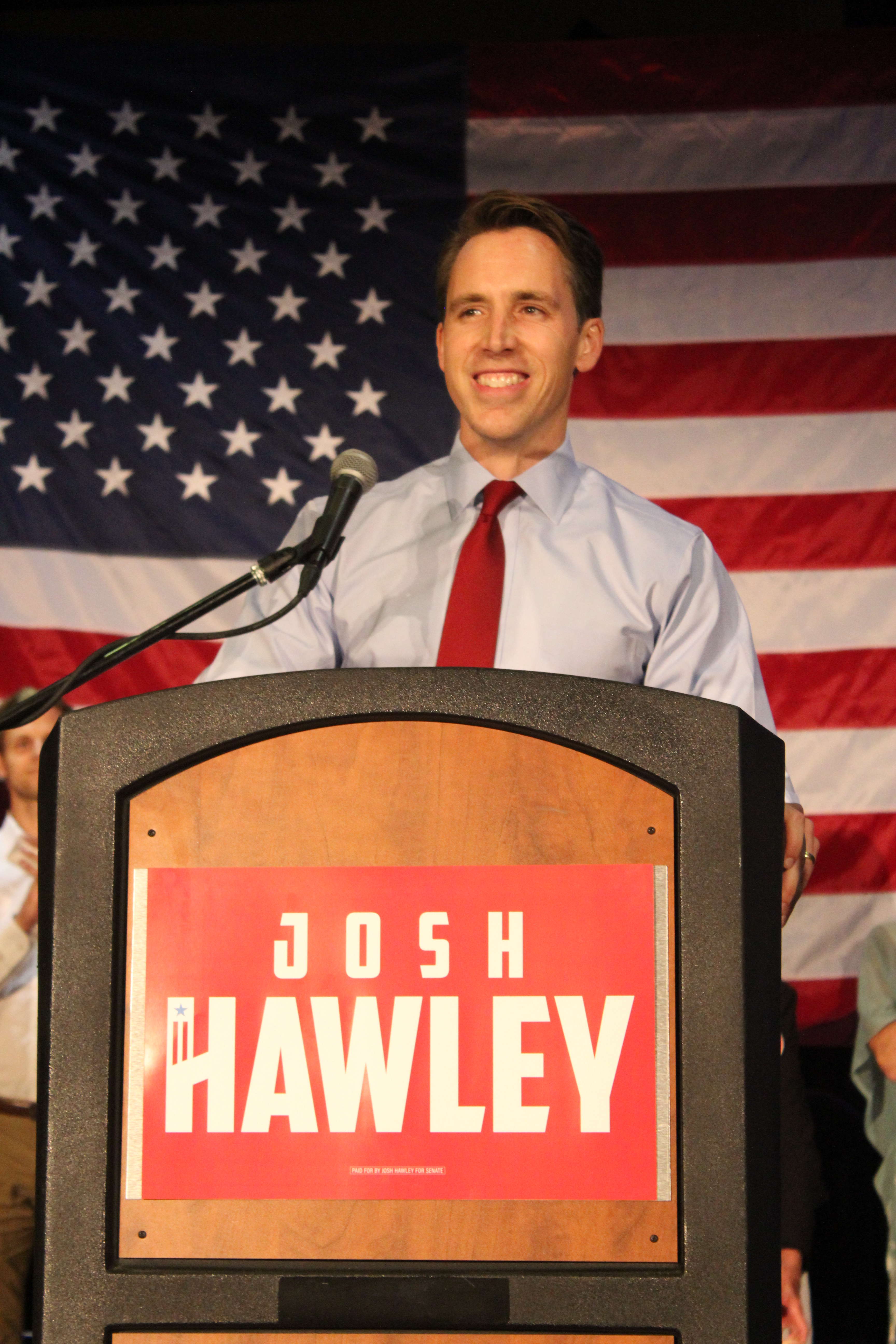 Photo of Josh Hawley i took w my DLSR the night he won the republican primary 2018.